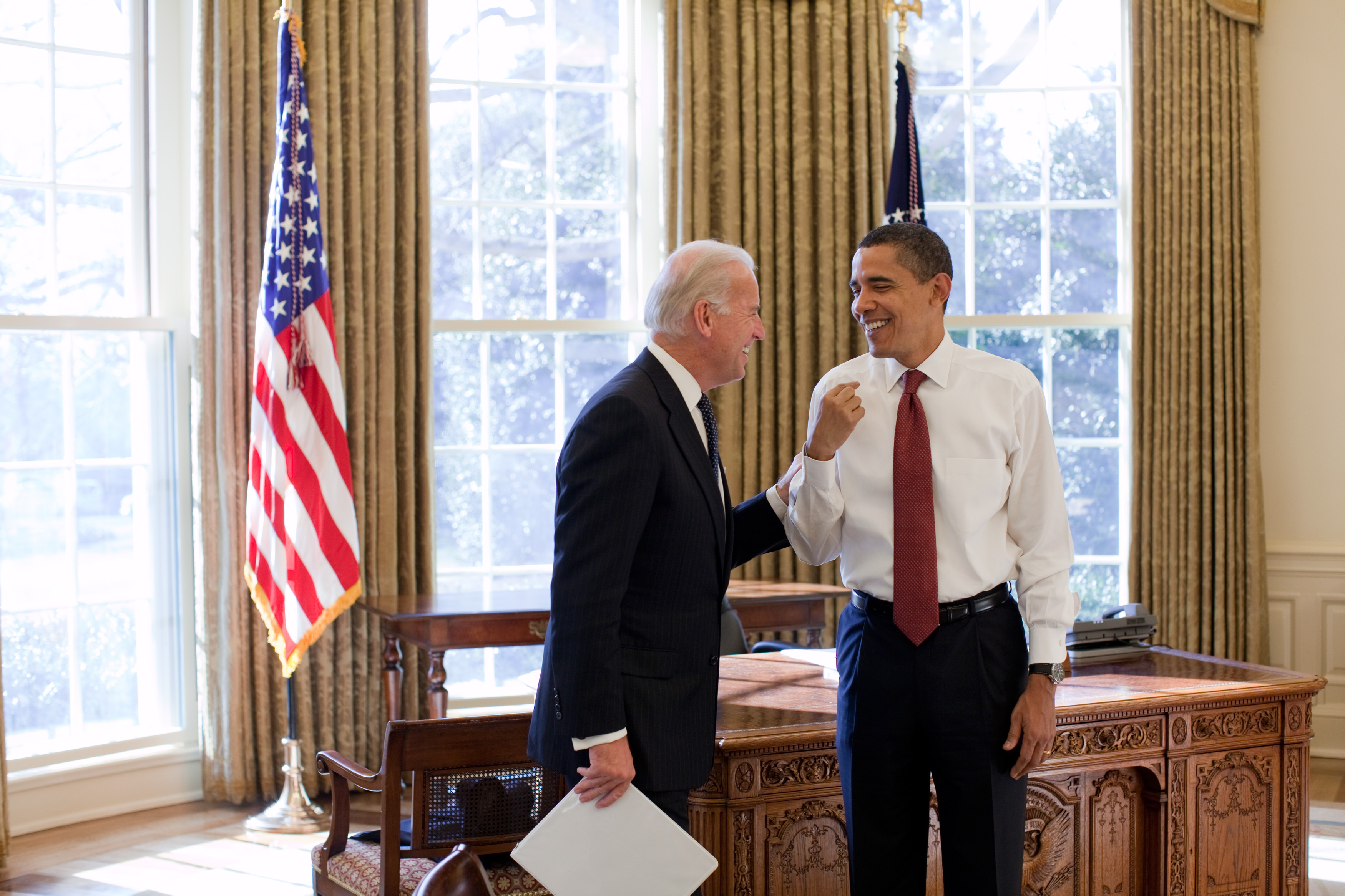 President Barack Obama and Vice President Joe Biden laugh together in the Oval Office, 1/22/09.